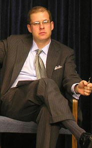 American neoconservative writer and pundit Max Boot.